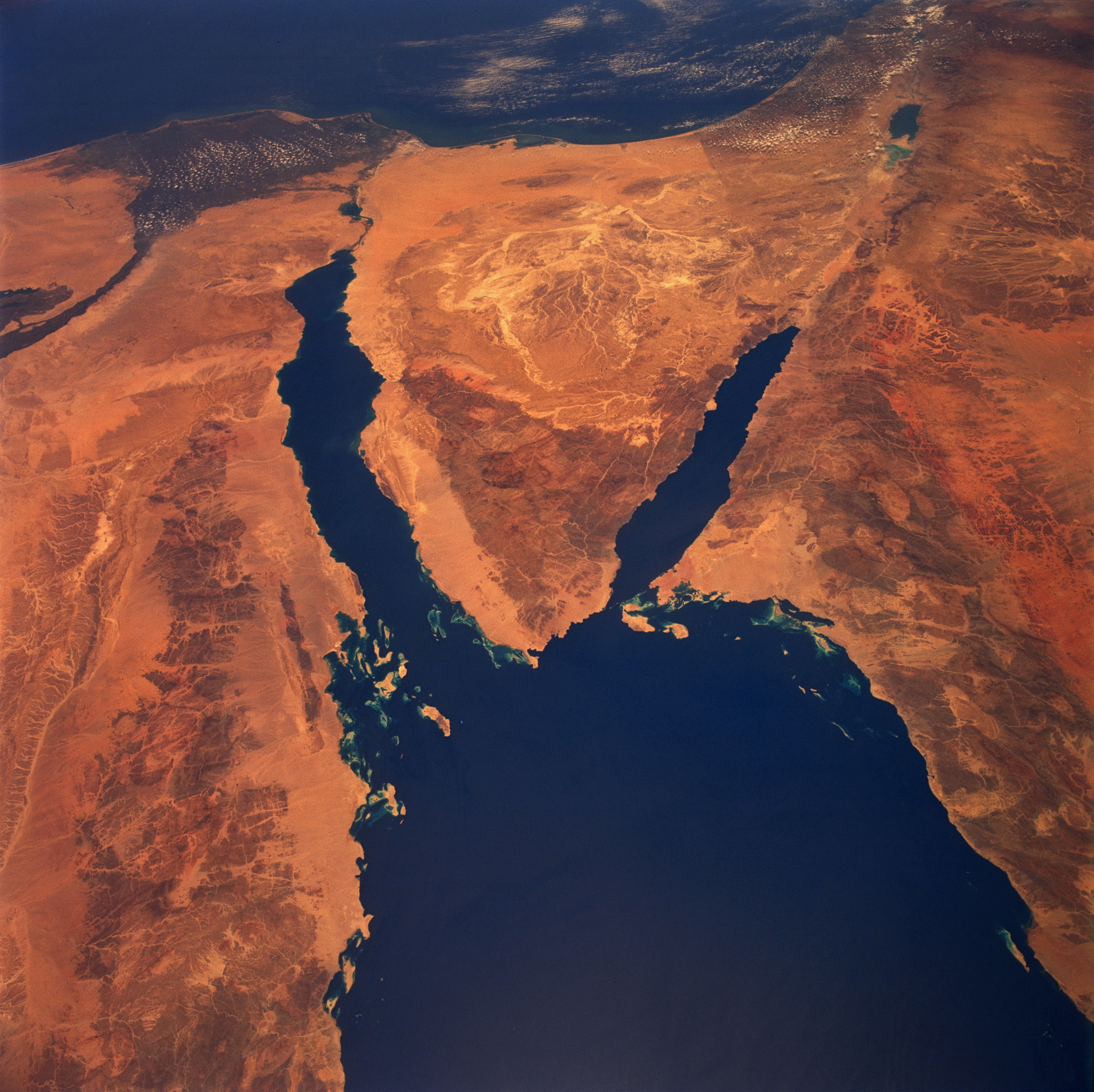 The deep blue waters of the northern Red Sea provide a striking contrast to the sandy landforms (tans) and hills and mountains (browns) of the arid landscape of northeastern Egypt, northwestern Saudi Arabia, southern Israel, and a small part of southwestern Jordan. Elevations for the mountains that ring the northern end of the Red Sea vary from approximately 2000 feet (610 meters) to 3000 feet (910 meters), with many peaks exceeding 6000 feet (1800 meters)—one peak exceeds 8000 feet (2440 meters). The light, more highly reflective pattern in the north-central Sinai is a drainage network of dry stream channels and lakebeds. Other landforms include the northernmost extent of the Nile River and its delta, the Suez Canal (northwest side of the Sinai Peninsula), the Gulf of Aqaba (southeast side of Sinai), the Dead Sea Rift, and the demarcation line in the desert between Israel and Egypt along the eastern edge of the Sinai caused by Israel’s emphasis on agriculture. Numerous coral reefs and small islands are visible east of Egypt near the southern tip of the Sinai Peninsula. Photograph taken from aboard Shuttle Columbia during STS-40.